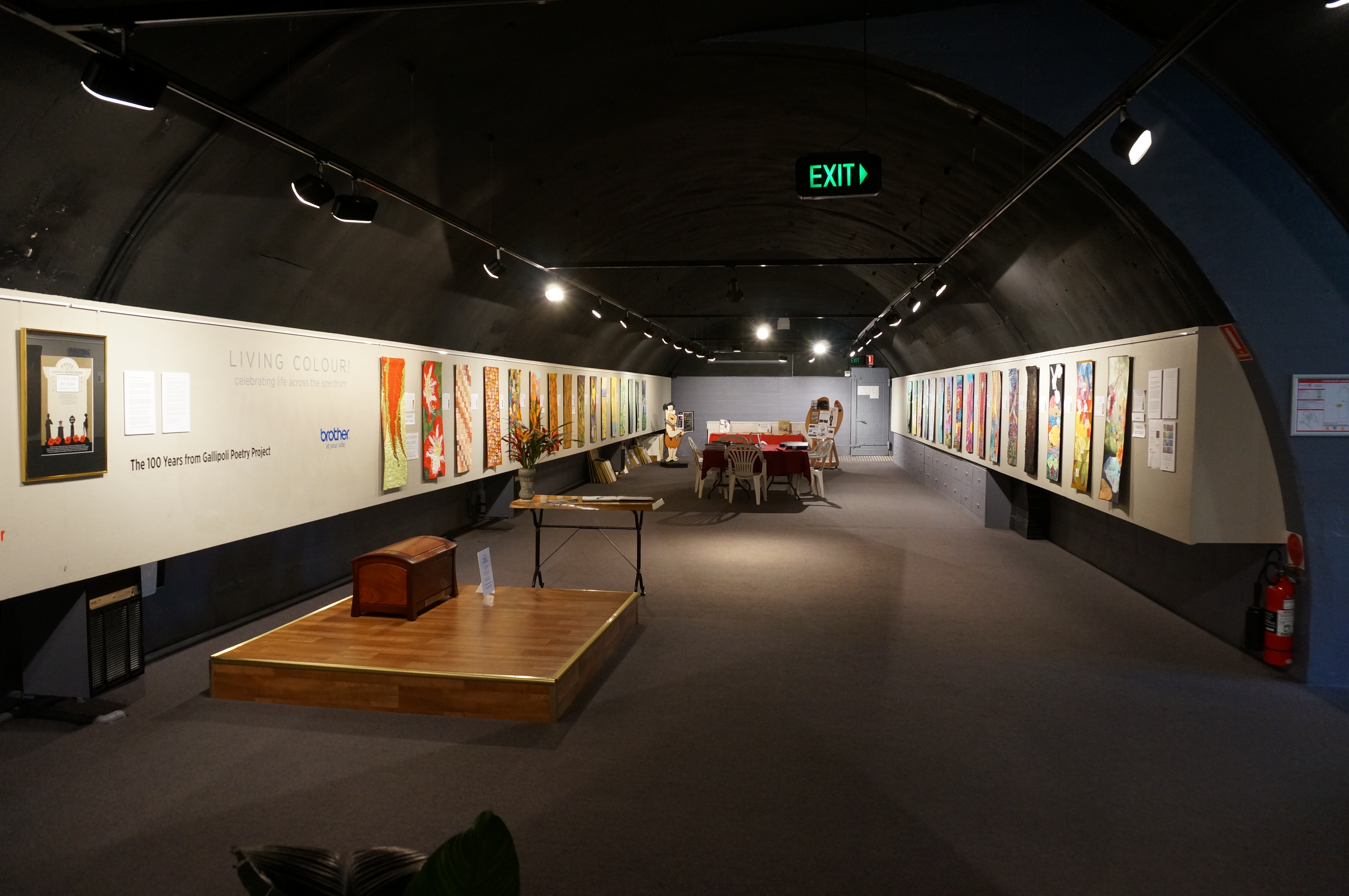 Inside The Bunker Cartoon Gallery Coffs Harbour